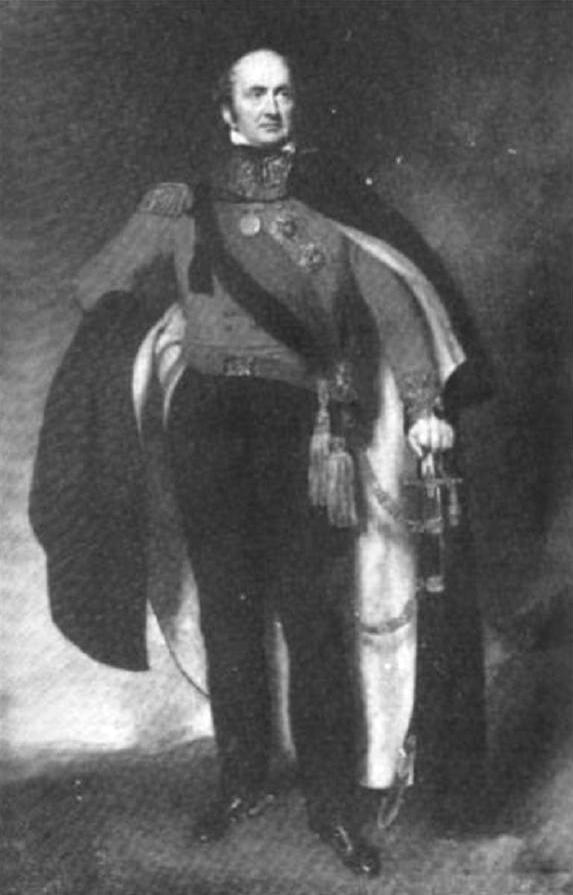 John_Malcolm_1769_1833_by_Samuel_Lane